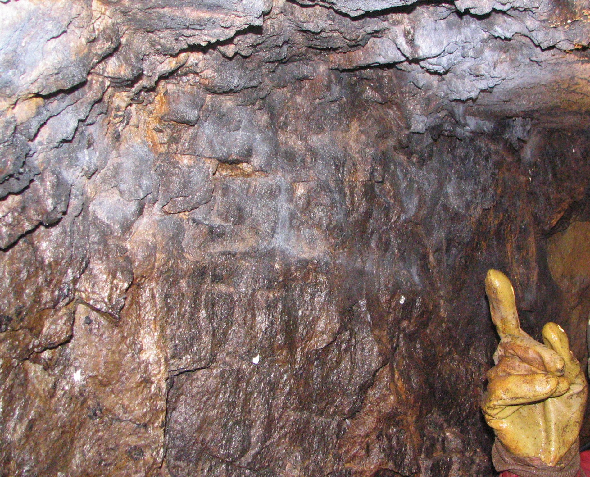 Adit made by fire-setting, residues. Medieval mine dating from the 12th or 13th century. The mine produced silver and lead as by-product. Location: Southern Black Forest, Germany.